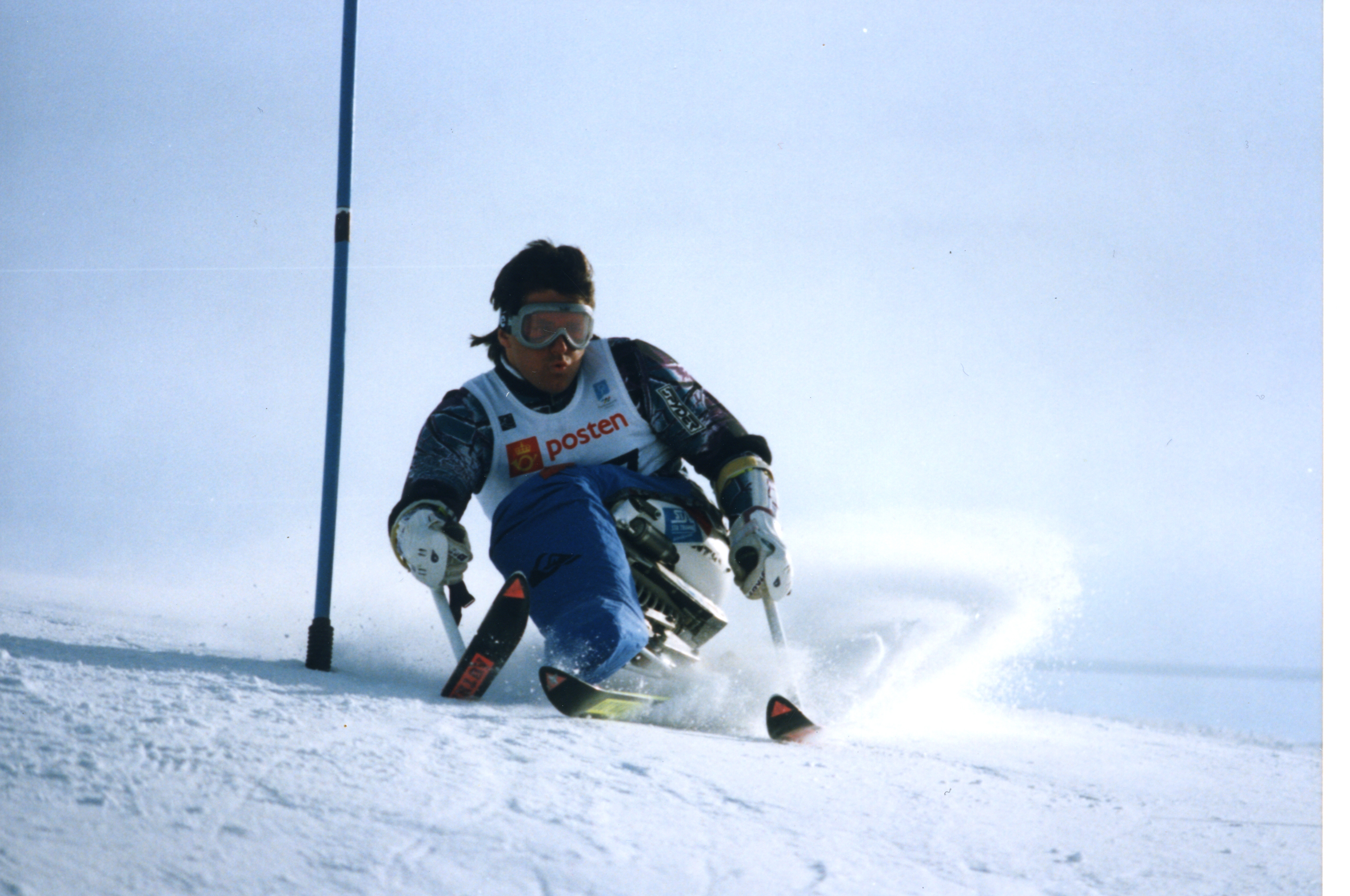 Australian Paralympian Michael Norton at the 1994 Winter Games in Lillehammer